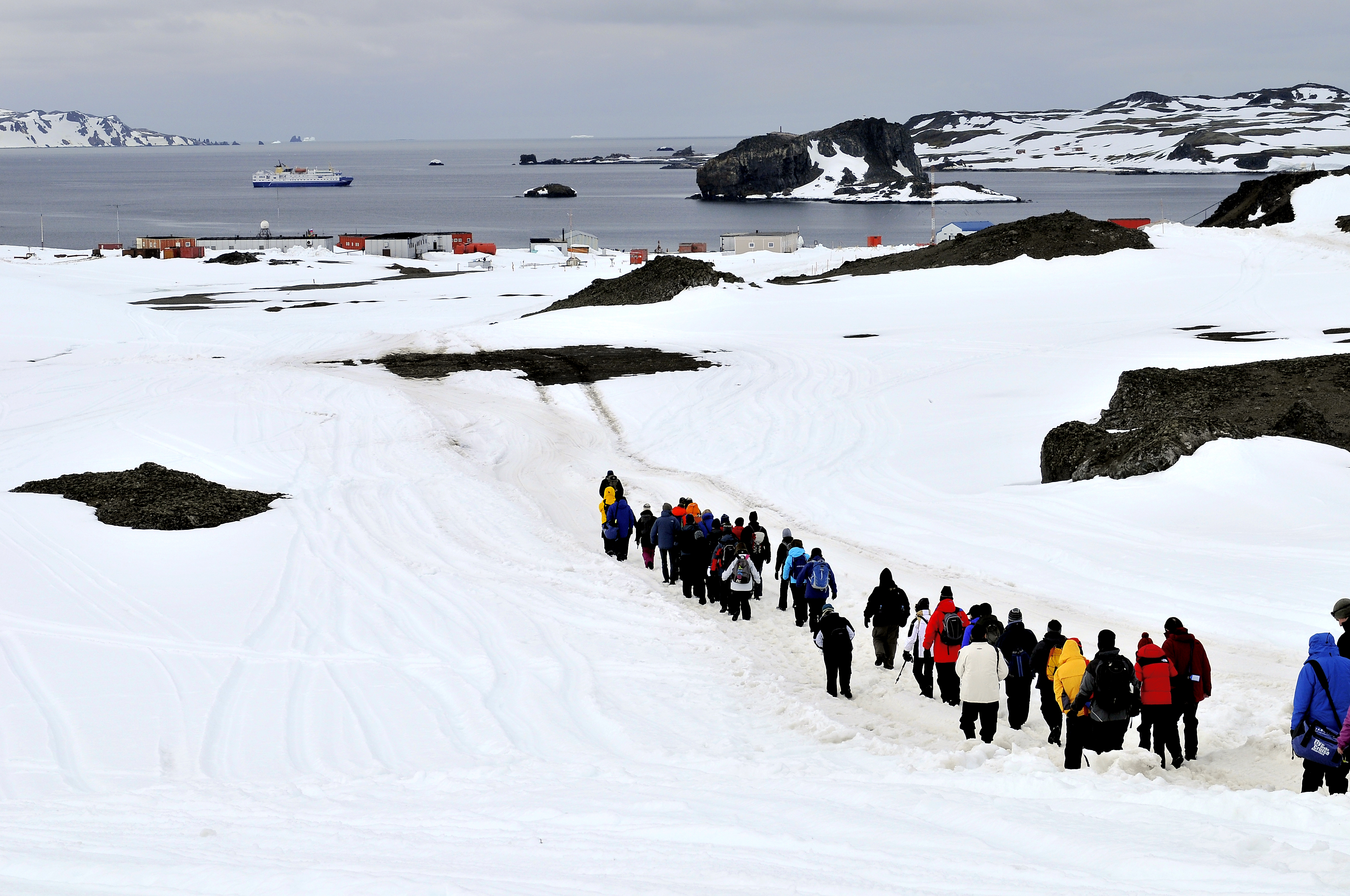 Tourist people going towards their cruise ship. Fildes Bay, King George Island, South Shetland Islands, Antarctica